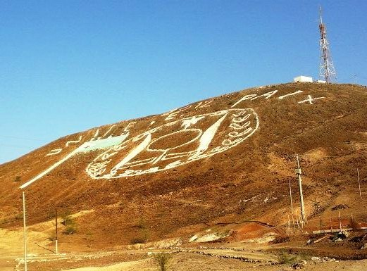 MountainofAliSabieh